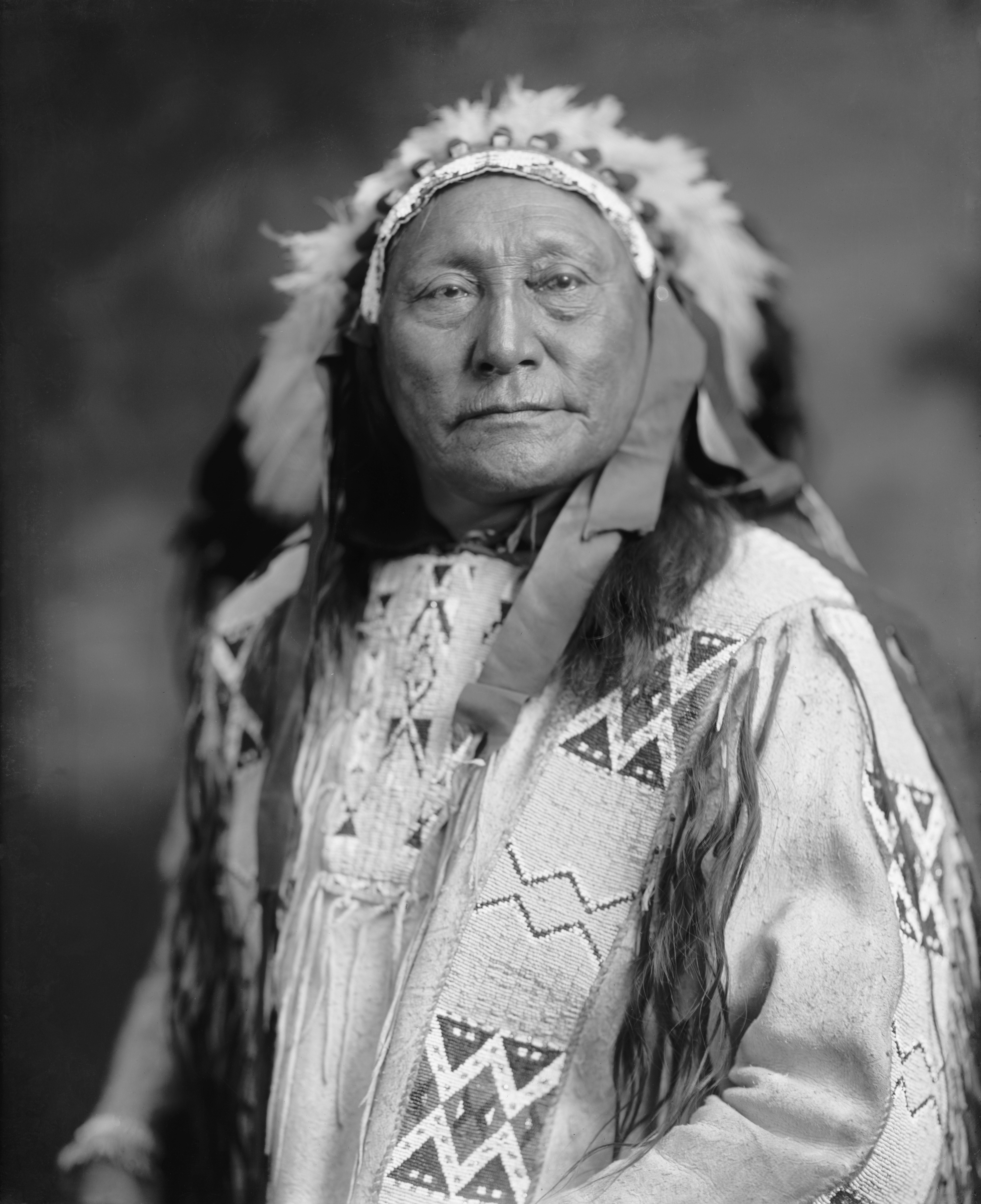 Title: HOLLOW, HORN BEAR Abstract/medium: 1 negative : glass ; 8 x 10 in. or smallerHollow Horn Bear (1850 – 1913) was a Brulé Lakota leader, who fought in a number of battles, including that at Little Big Horn. He later testified before the US Supreme Court in the case of Ex parte Crow Dog, rode in the inaugural parades of presidents Roosevelt and Wilson, and was featured on the five dollar bank note and a 1922 US postage stamp.